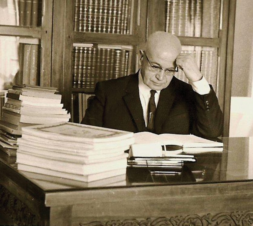 Syrian poet Anwar Al-Attar at his literary office in his home in Damascus, 1970